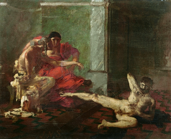 Locusta testing poison on a slave, sketch for the award-winning Locusta testing in Nero's presence the poison prepared for Britannicus (Locuste essaye, en présence de Néron, le poison préparé pour Britannicus).